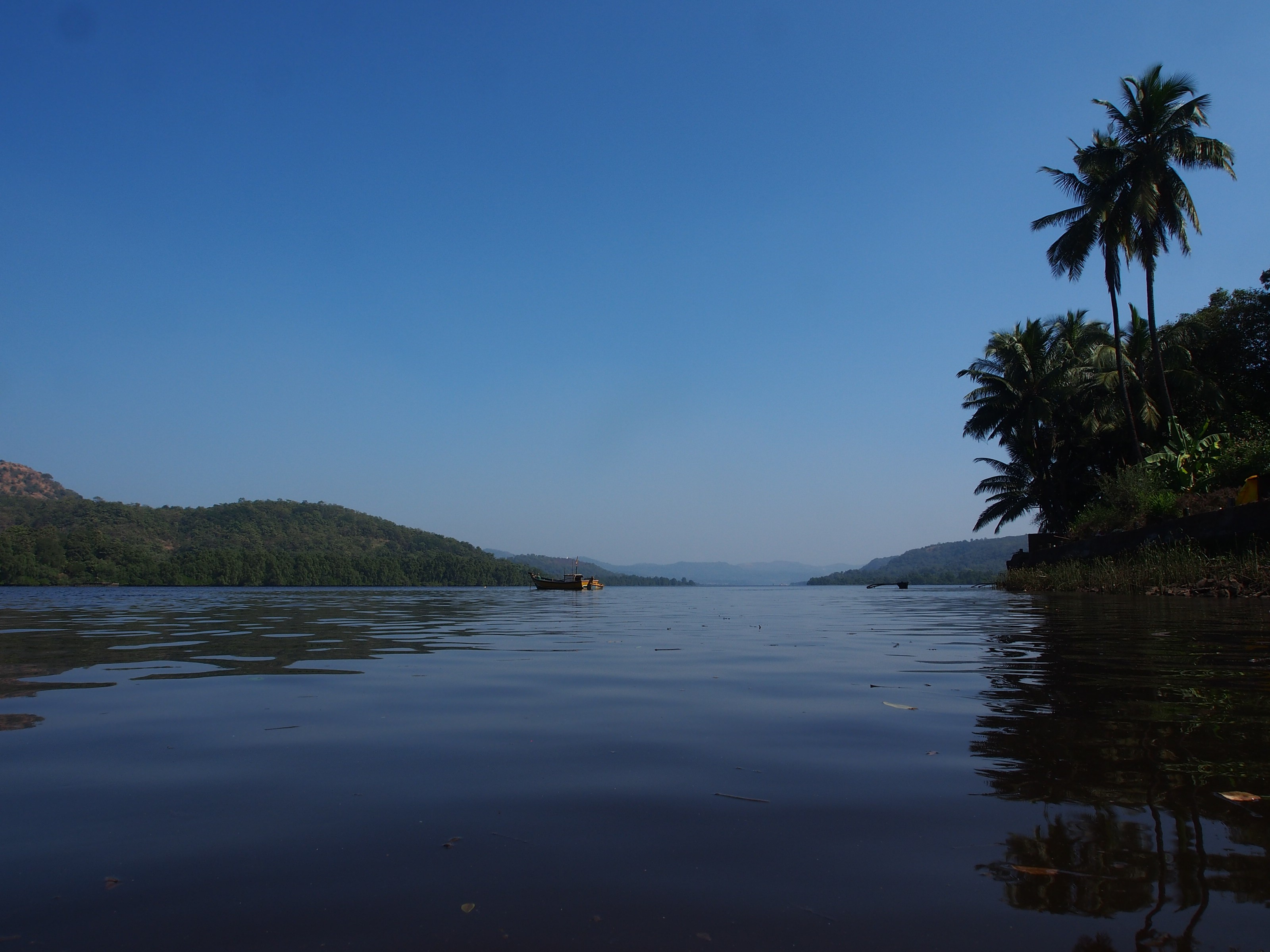 Vashishti River as seen from Maldoli